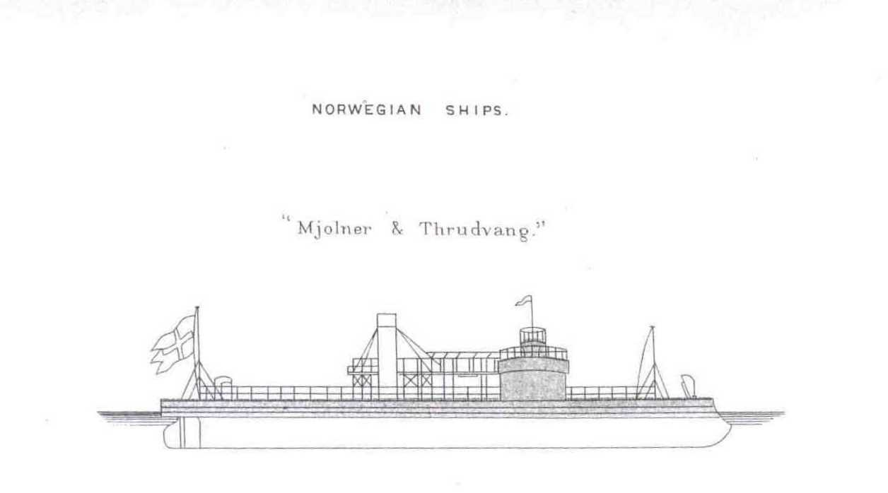 The Norwegian Skorpionen class of monitors comprised the Skorpionen, Mjølner and Thrudvang.